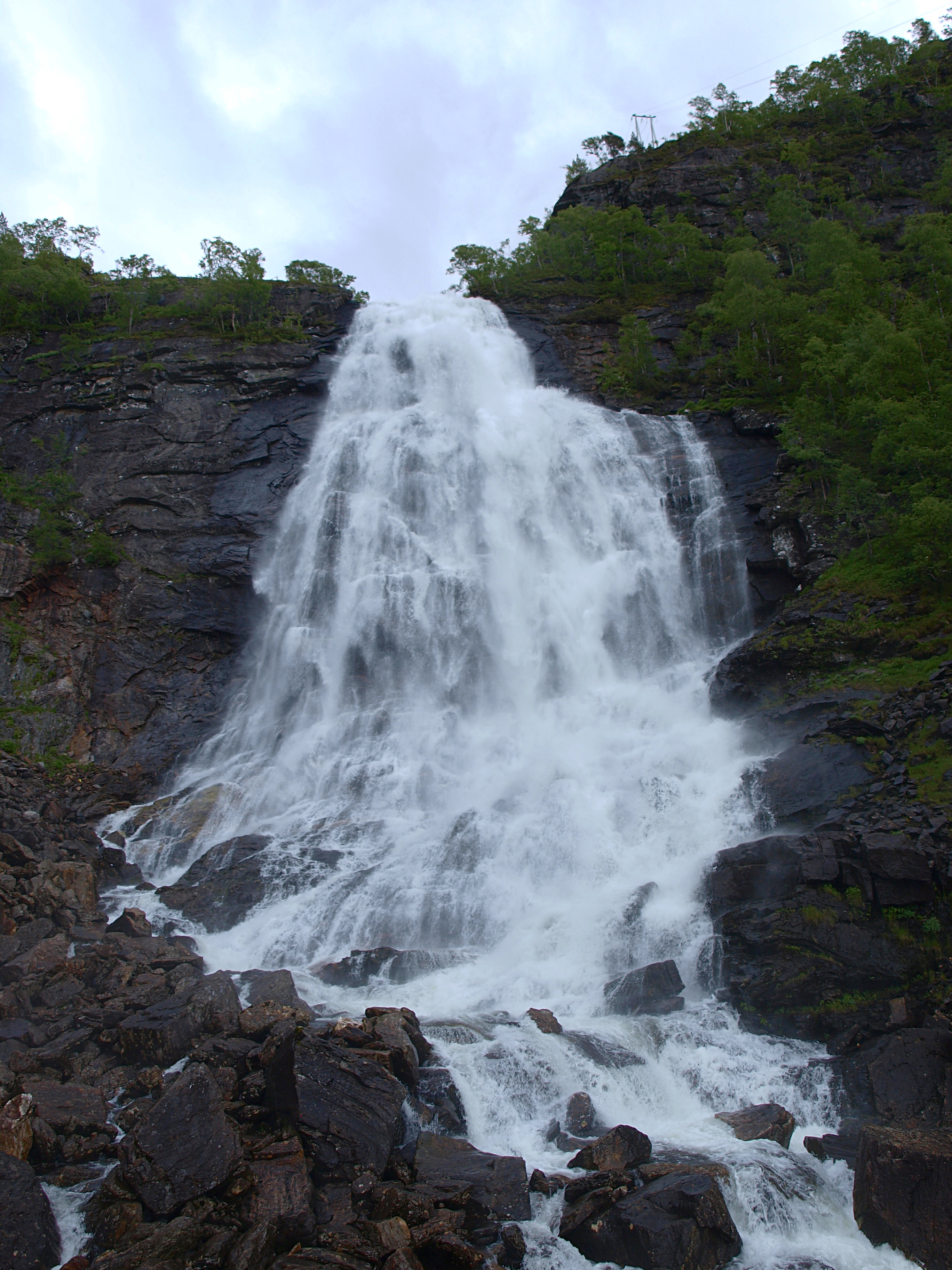 Fossen Bratte, also known as «Brudesløret» due to an accident whereby a couple on their wedding tour to Norway drove off the cliff. The road is on top of the wall to the left of the waterfall.